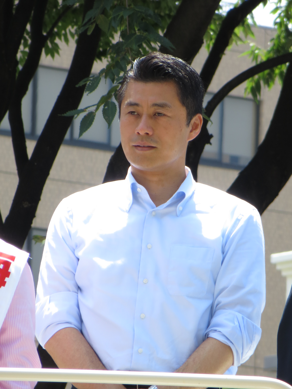 Gōshi Hosono (secretary-general of Democratic Party of Japan).